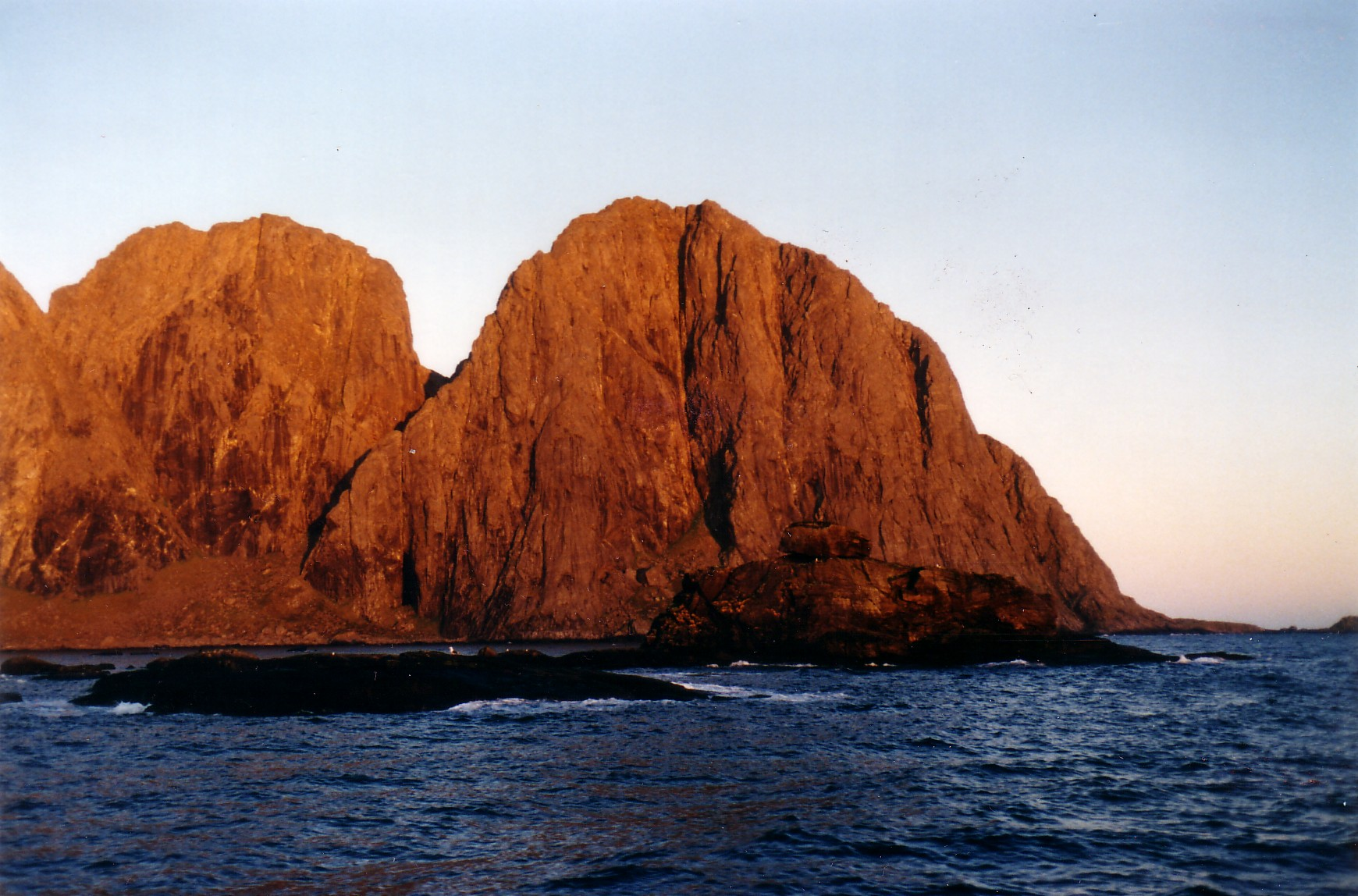 The Lofotodden headland in Moskenes, Lofoten, North Norway. Above the dark reef to the left is the Refsvik Cave to be seen.